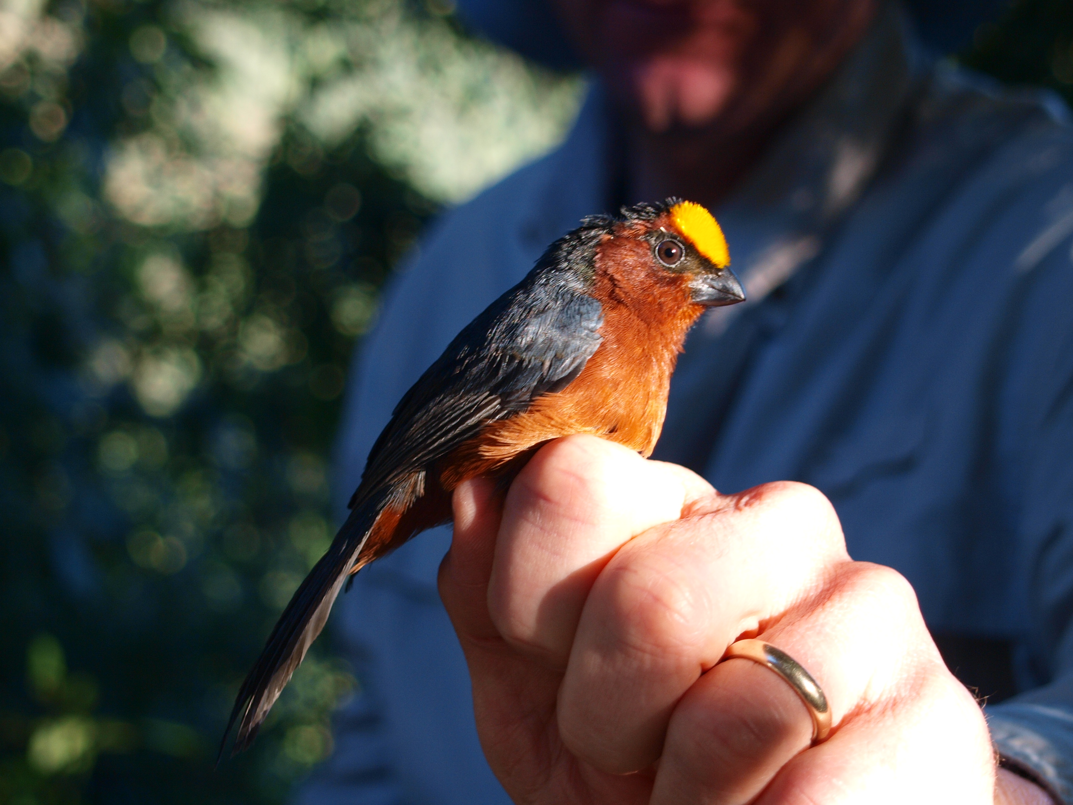 Plushcap